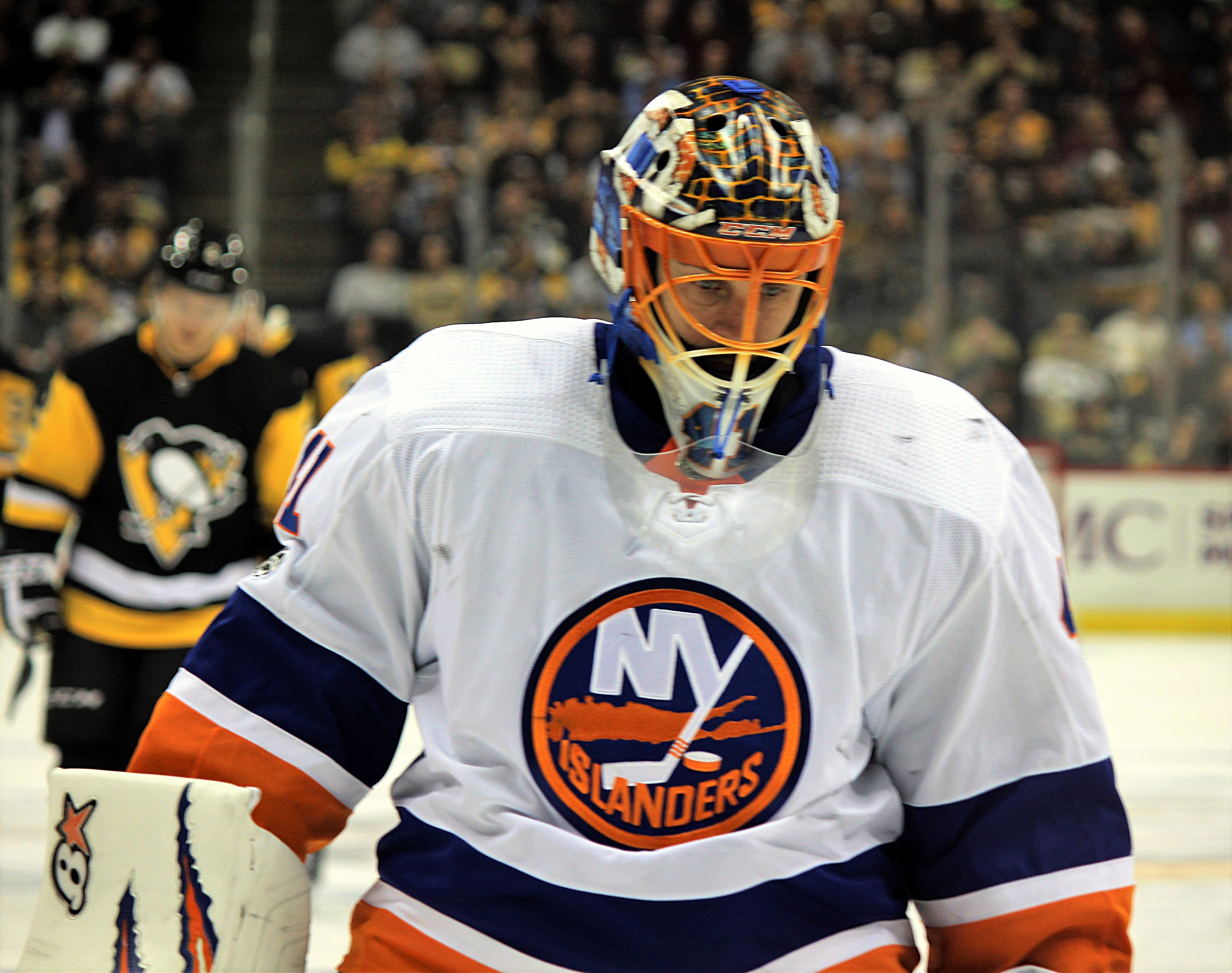 New York Islanders goalie Jaroslav Halak during a game against the Pittsburgh Penguins, December 7, 2017, at PPG Paints Arena in Pittsburgh, PA.